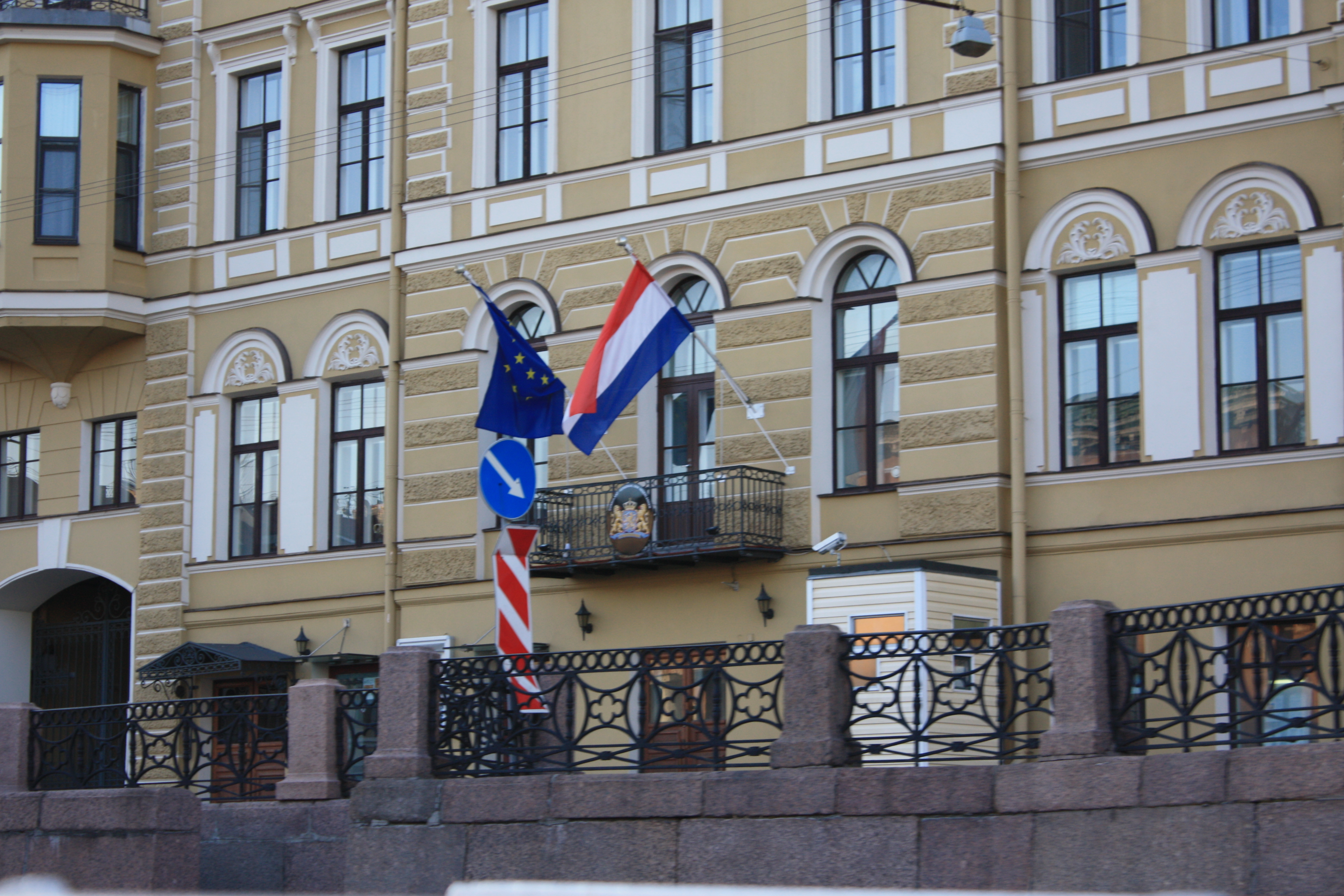 Dutch Consulate in St. Petersburg.